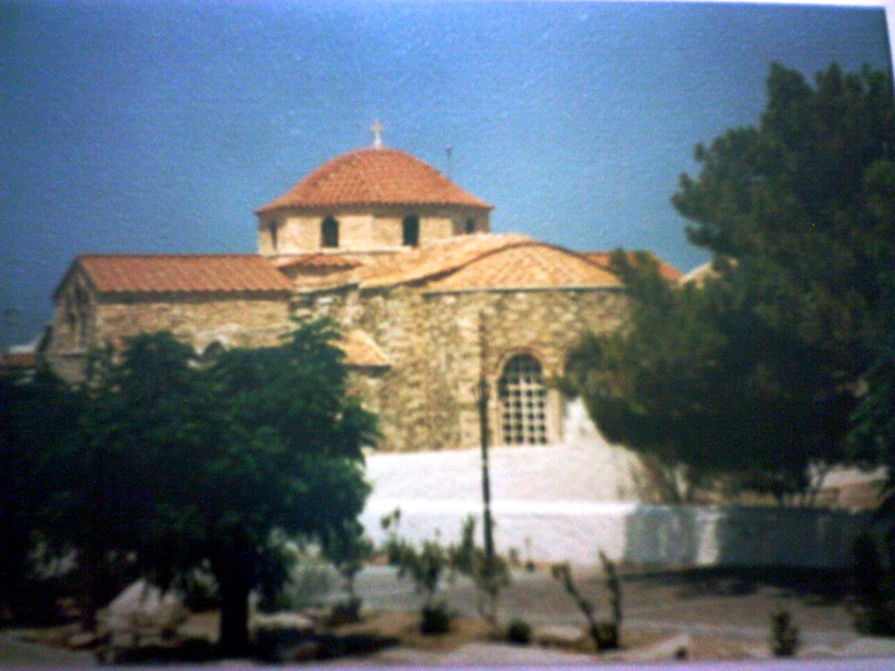 Church of Panaghia Ekatontopiliani in Paros, Cyclades, Greece.